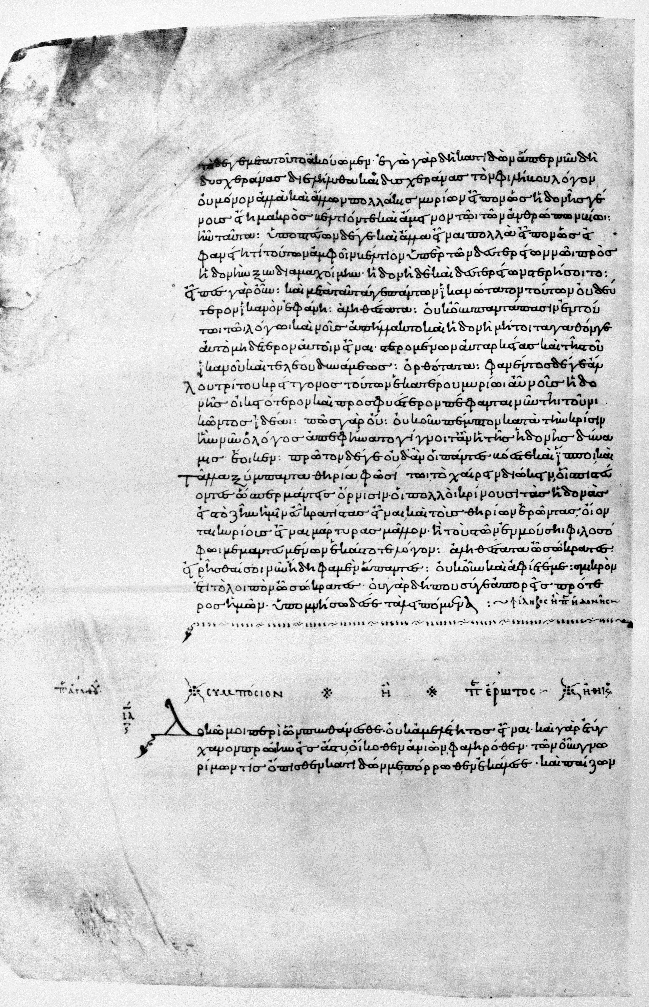 Page of the Codex Oxoniensis Clarkianus 39 (Clarke Plato). Dialogue Symposion.